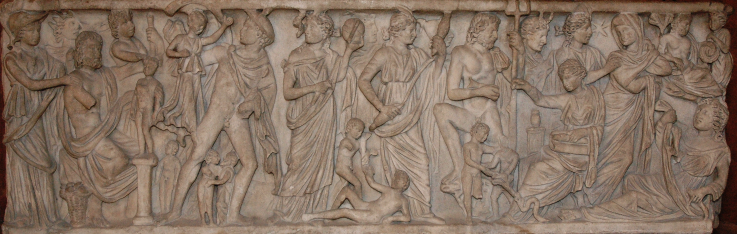 Prometheus creates Man; some Olympian gods watch the process: from left to right, Athena (with her helmet), Hermes (with his winged petasus) and cloak, two Moirae (probably Lachesis and Clotho), Poseidon (with his trident), Artemis (with the moon crescent) and presumably Atropos. Roman sarcophagus, ca. 240 AD.